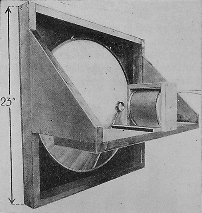 The first moving coil cone loudspeaker, developed by Chester W. Rice and Edward W. Kellogg at General Electric Laboratory in Schenectady, New York in 1925. It is the prototype for almost all modern loudspeakers. It consists of a paper cone attached at the rim to the baffle plate with a very flexible compliant coupling, attached to a light coil of wire (voice coil) in the field of an electromagnet. In this view, the magnet appears to be pulled back so the voice coil is visible. An important part of the invention was Rice and Kellogg's characterization of the acoustic properties of the cone: to have a flat frequency response it had to have a fundamental mode of vibration below 100 Hz and be mounted in a baffle at least 2 feet square.